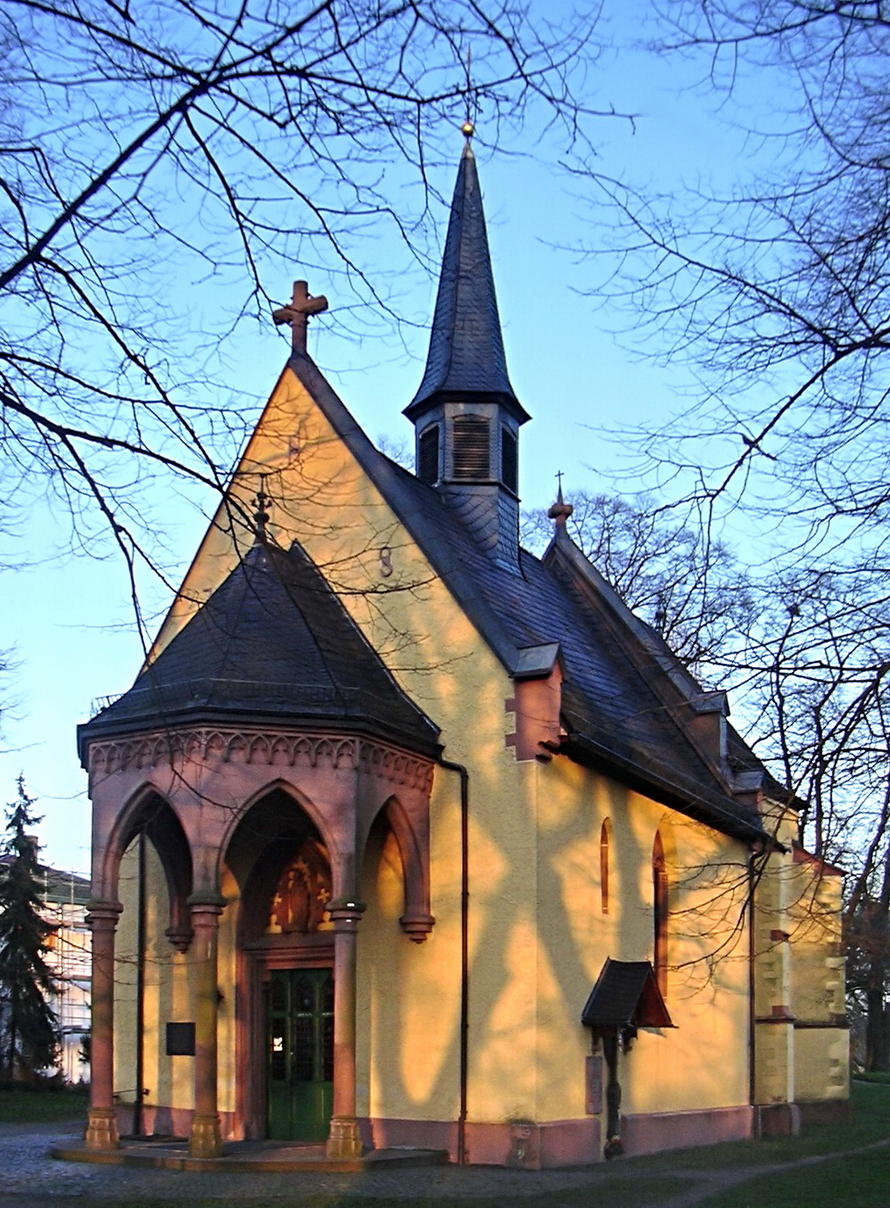 Gernsheim, 15th century St. Mary's chapel